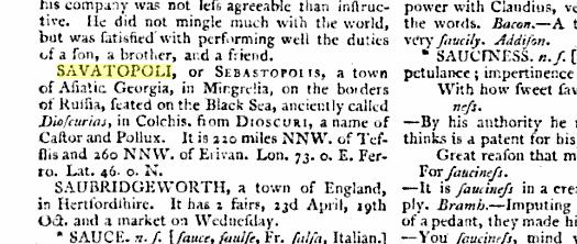 The new encyclopaedia or Universal Dictionary of arts and sciences. vol. XIX. London, 1807.